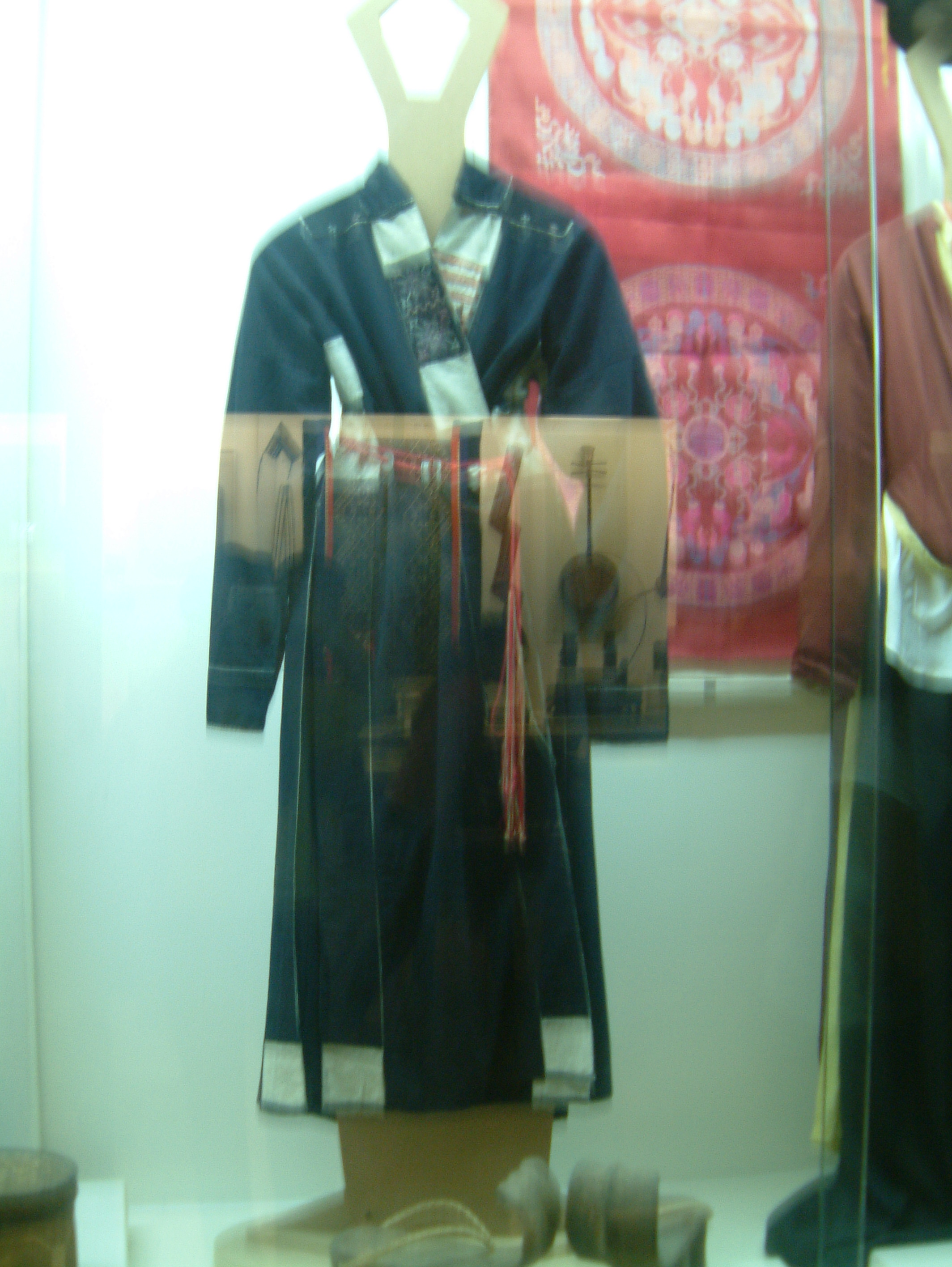 Traditional clothing of Muong people (Vietnam Museum of Ethnology)